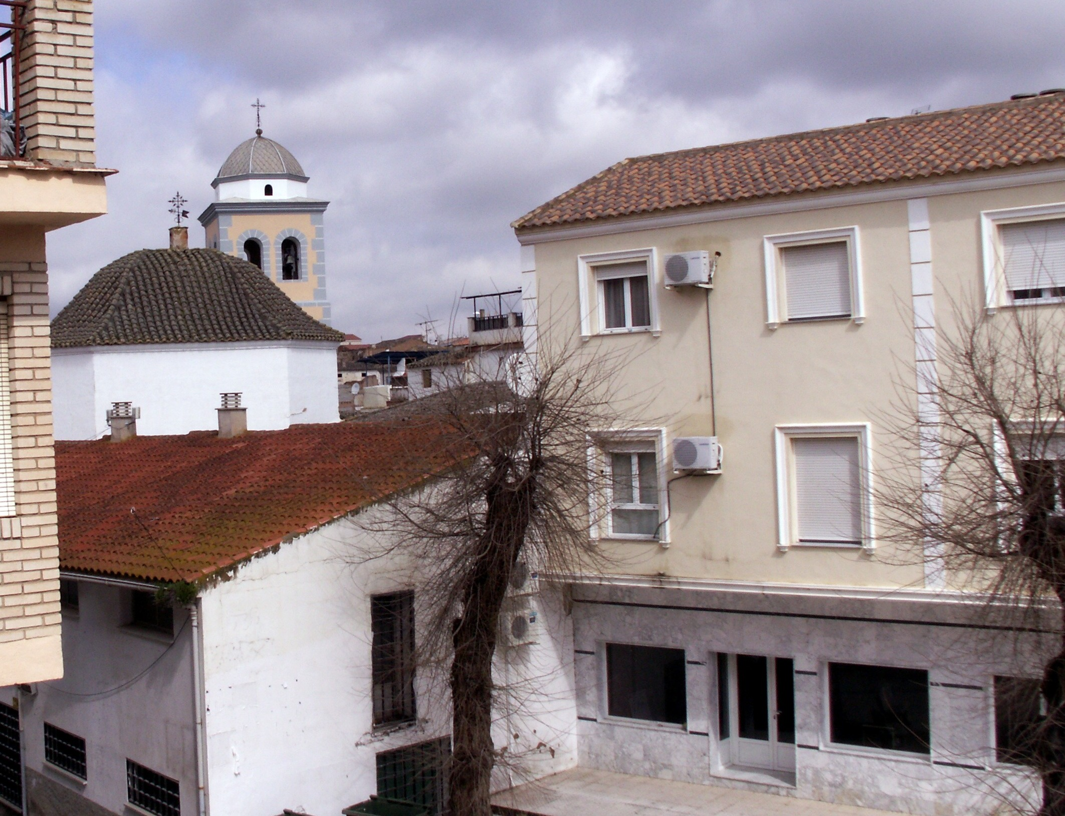 Zújar, Spain